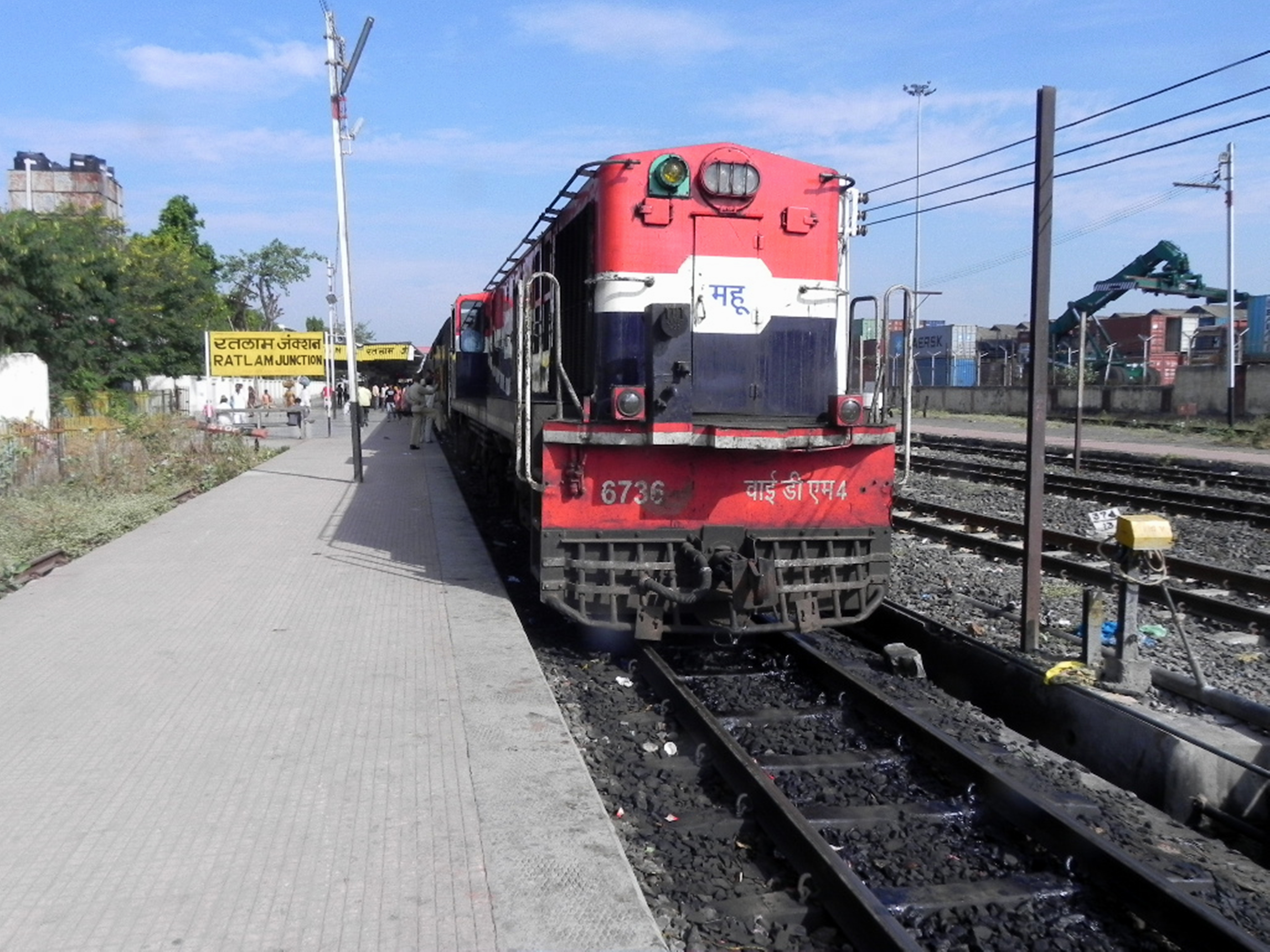 MHOW based YDM-4 loco with 52957 (Ratlam-Mhow) Passenger at Ratlam